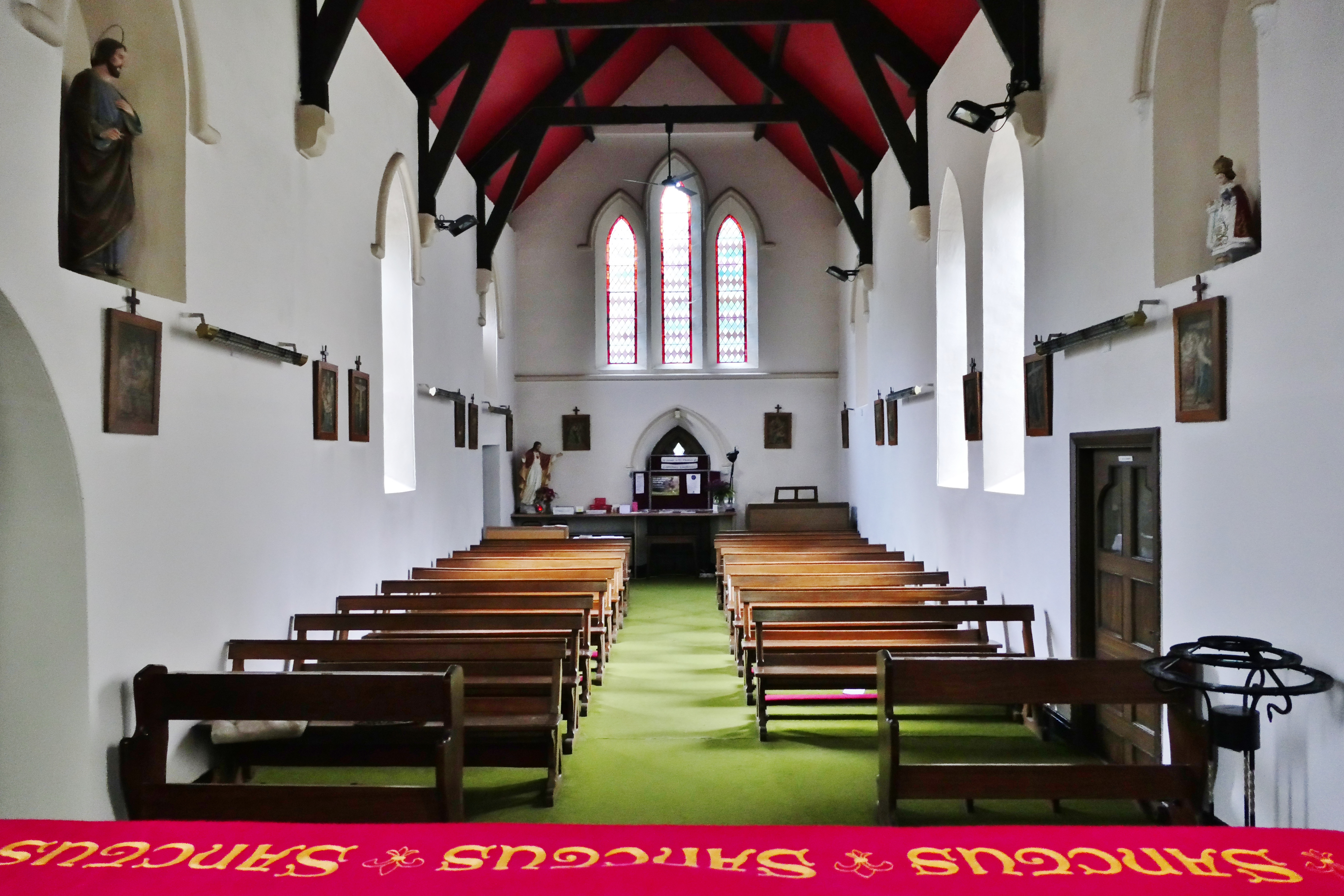 St Thomas of Canterbury - interior viewed from the Altar